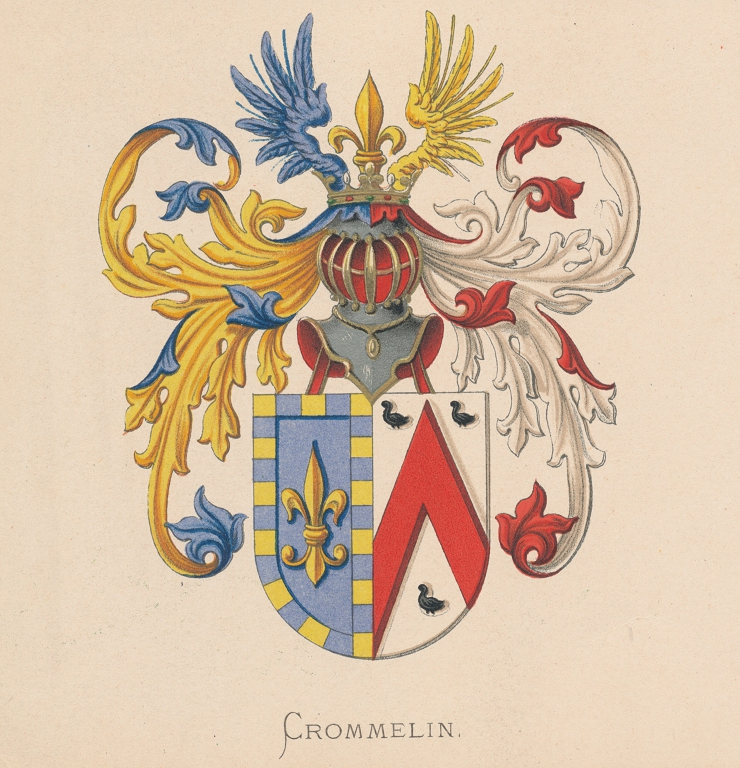 Coat of arms of the Crommelin family (high resolution) getekend door de heraldicus en wapentekenaar C. W. H. Verster (overl. Driebergen 1921)